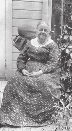 Screenshot-2017-10-1 Dayton